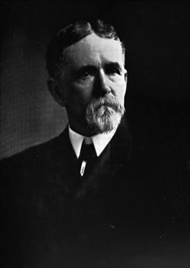 Portrait photograph of Virginia Congressman John Lamb